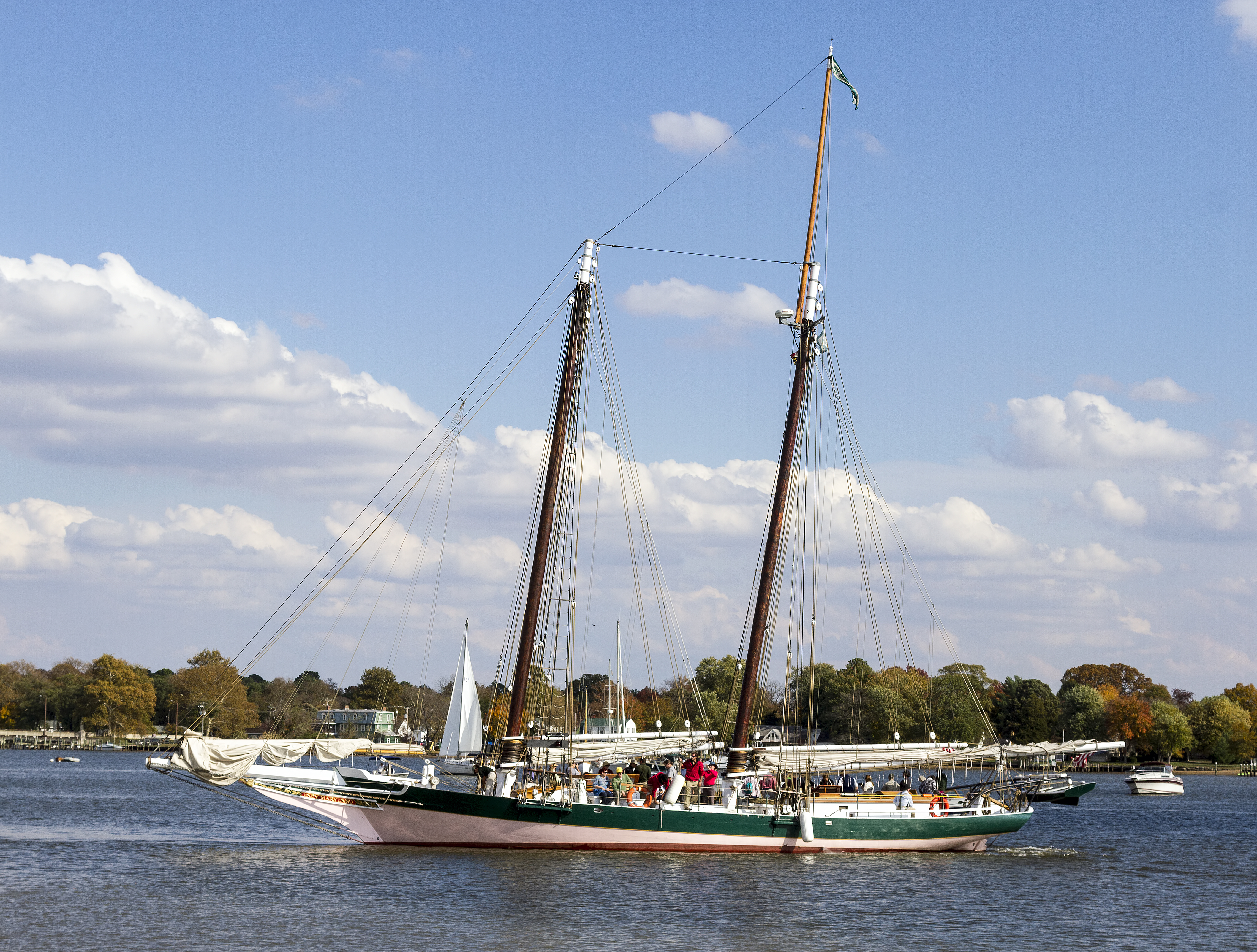 The pungy schooner Lady Maryland on the Chester River, Chestertown, Maryland, USA